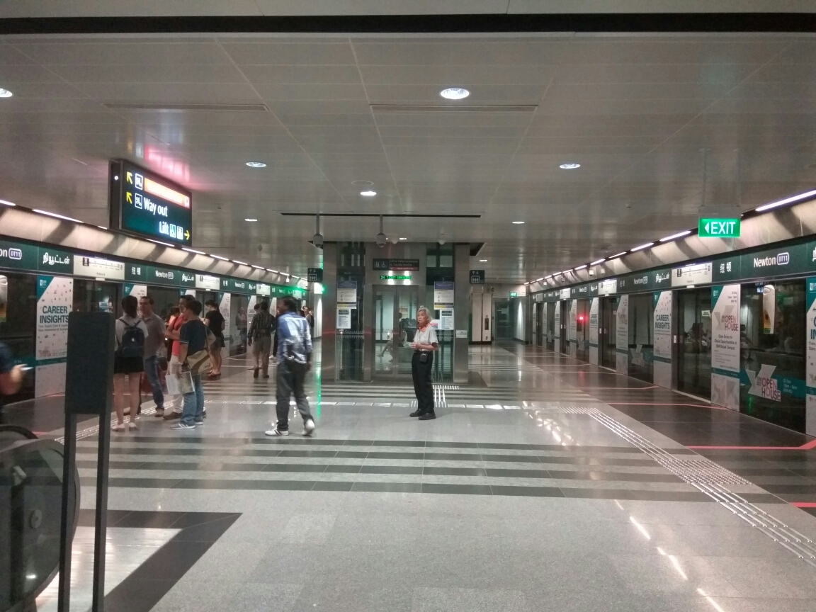 View of Newton MRT Station